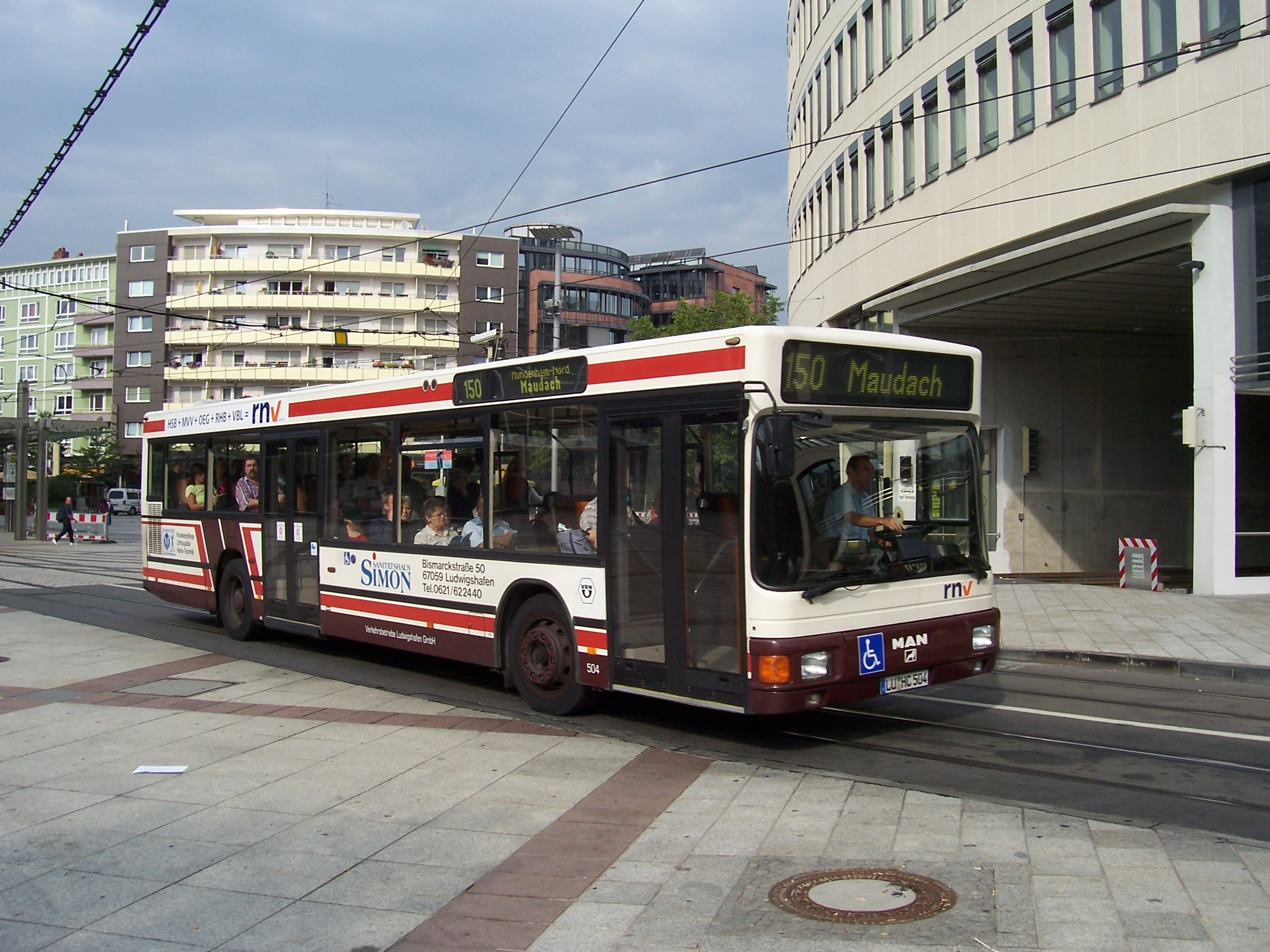 A MAN A10/NL 202 bus in Ludwigshafen am Rhein, Germany My own photo from 9-sep-2005